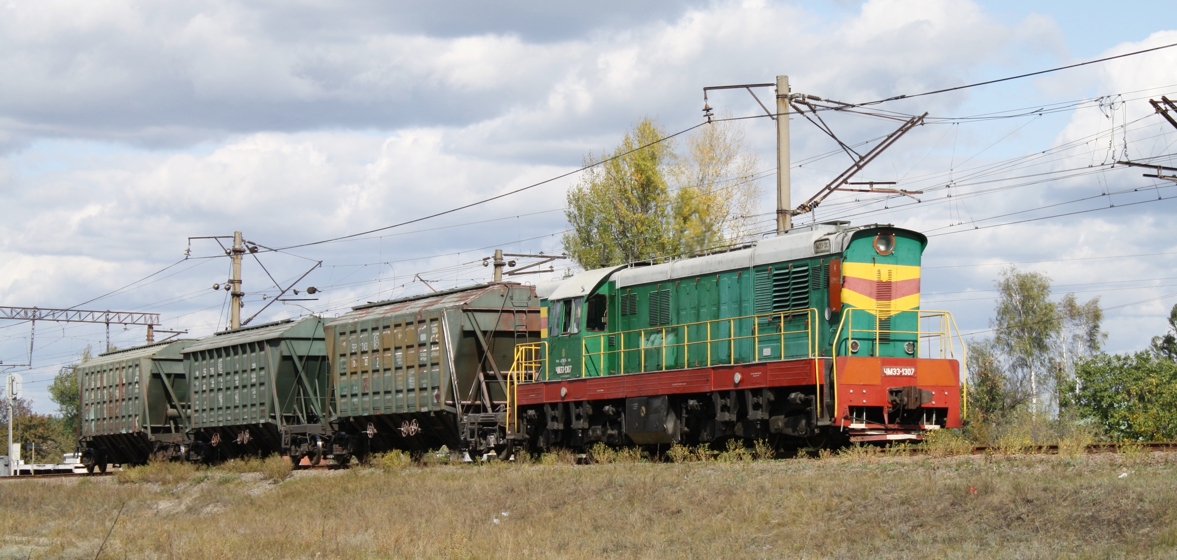 Diesel locomotive among Malynovka village.